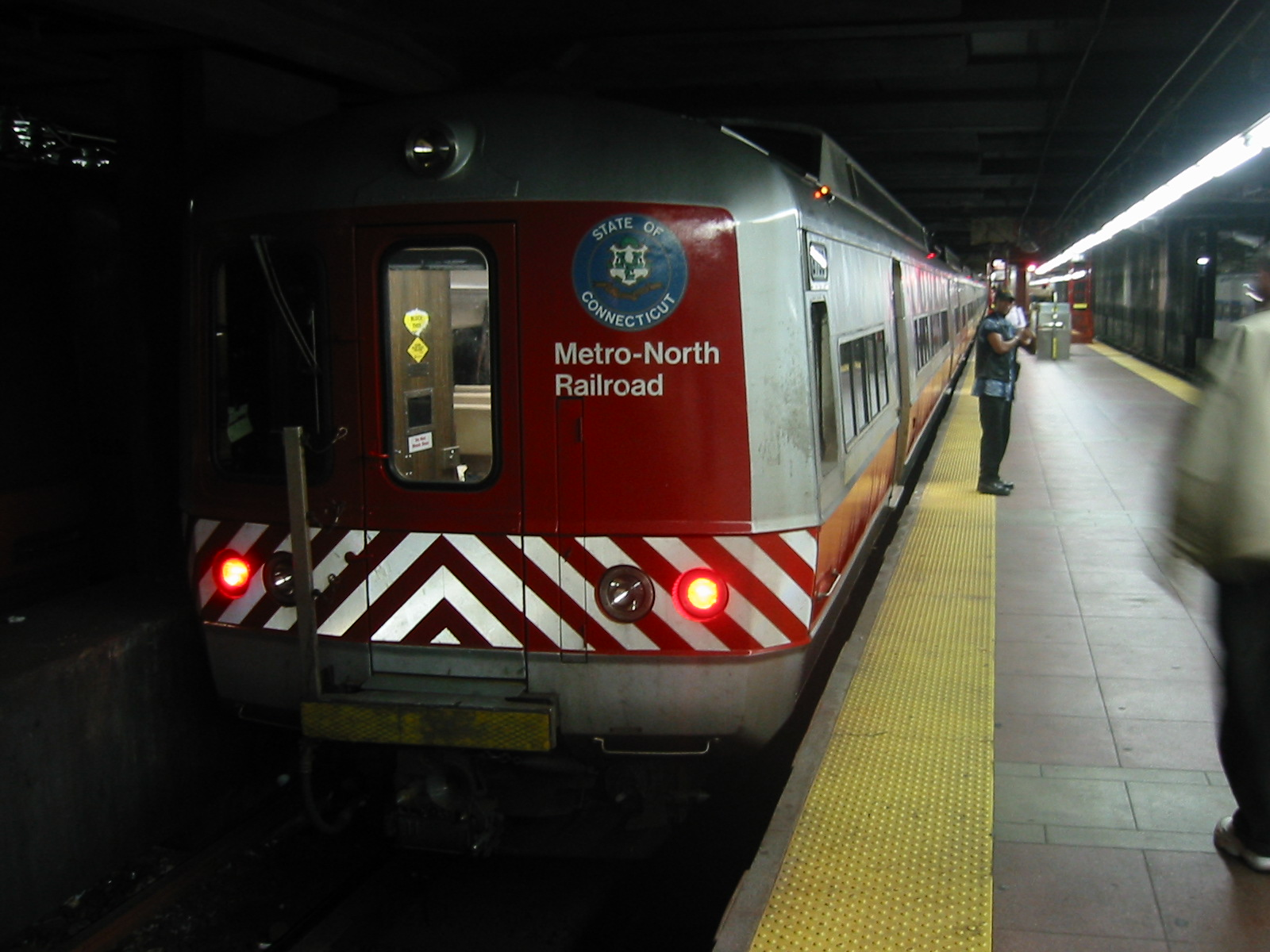 A train of the Metro-North Railroad, a suburban commuter railroad service between New York City to its northern suburbs in New York and Connecticut.